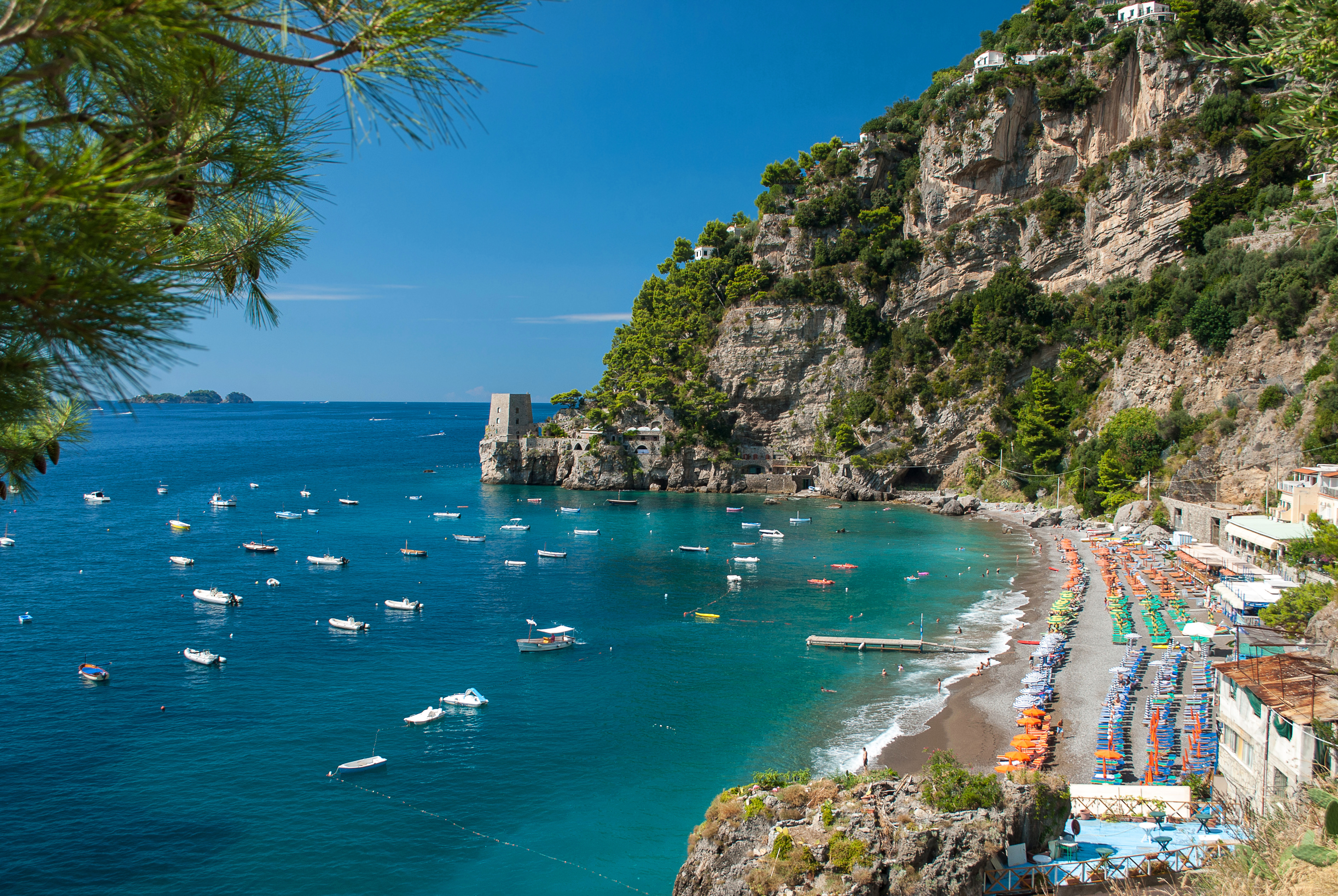 Fornillo Beach in Positano